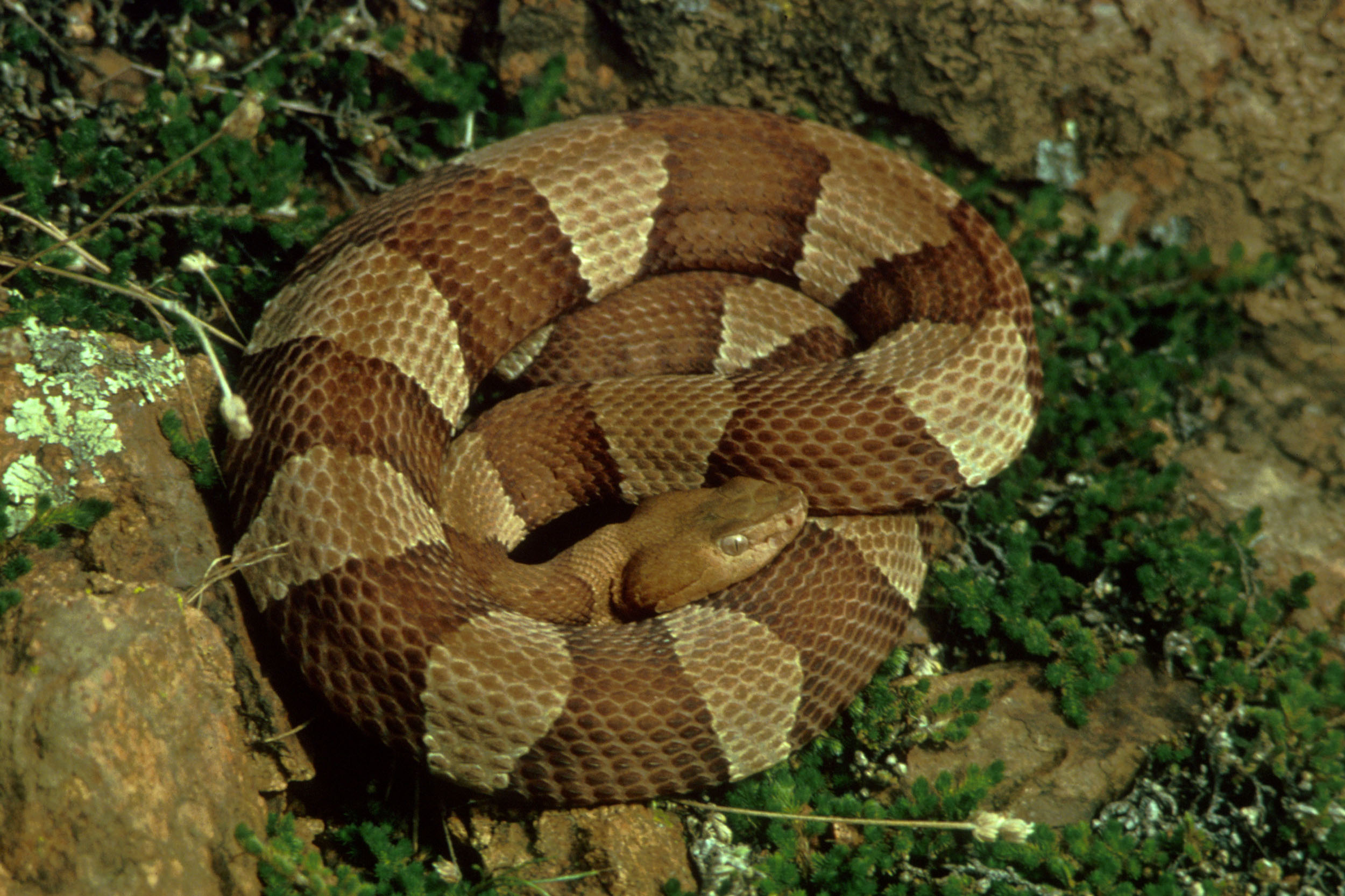 Broad-banded Copperhead (Agkistrodon contortrix laticinctus) Creator: Rauch, Ray Source: This image originates from the National Digital Library of the United States Fish and Wildlife Service at this page This tag does not indicate the copyright status of the attached work. A normal copyright tag is still required. See Commons:Licensing for more information. See Category:Images from the United States Fish and Wildlife Service. Publisher: U.S. Fish and Wildlife Service Date Available: January 14 2002 Issued: January 09 2002 Modified: June 10 2002